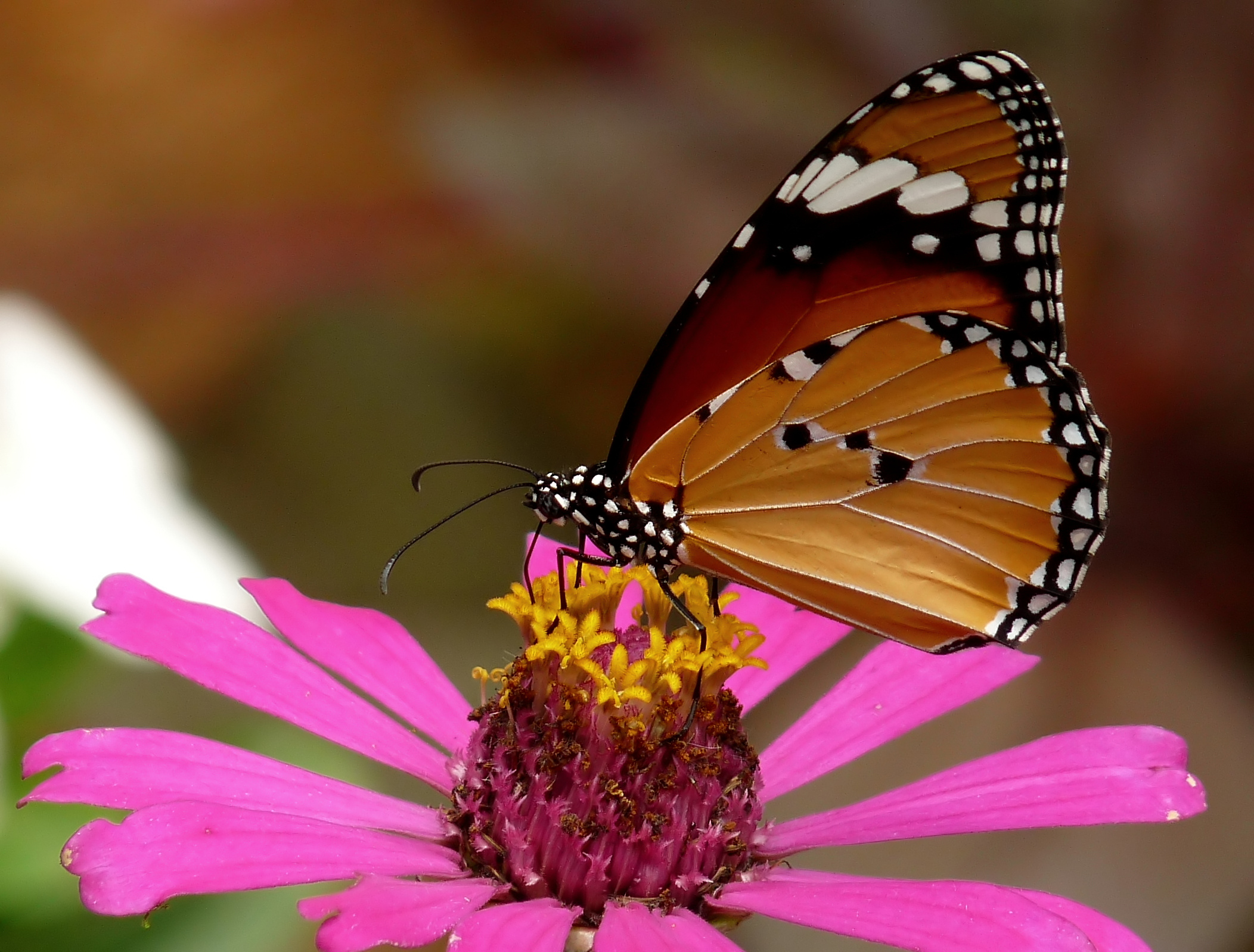 Danaus chrysippus, known as the Plain Tiger or African Monarch, is a common butterfly which is widespread in Asia and Africa. It belongs to the Danainae ("Milkweed butterflies") subfamily of the brush-footed butterfly family, Nymphalidae. It is a medium-sized, non-edible butterfly, which is mimicked by multiple species. This is a female. Taken at Kadavoor, Kerala, India.